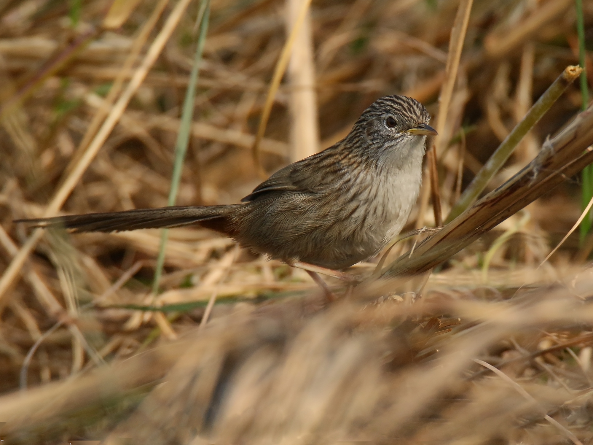 Rufous-vented Prinia (Laticilla burnesii) captured at Samianwala, Balloki, Kasur, Punjab, Pakistan with Canon EOS 7D Mark II